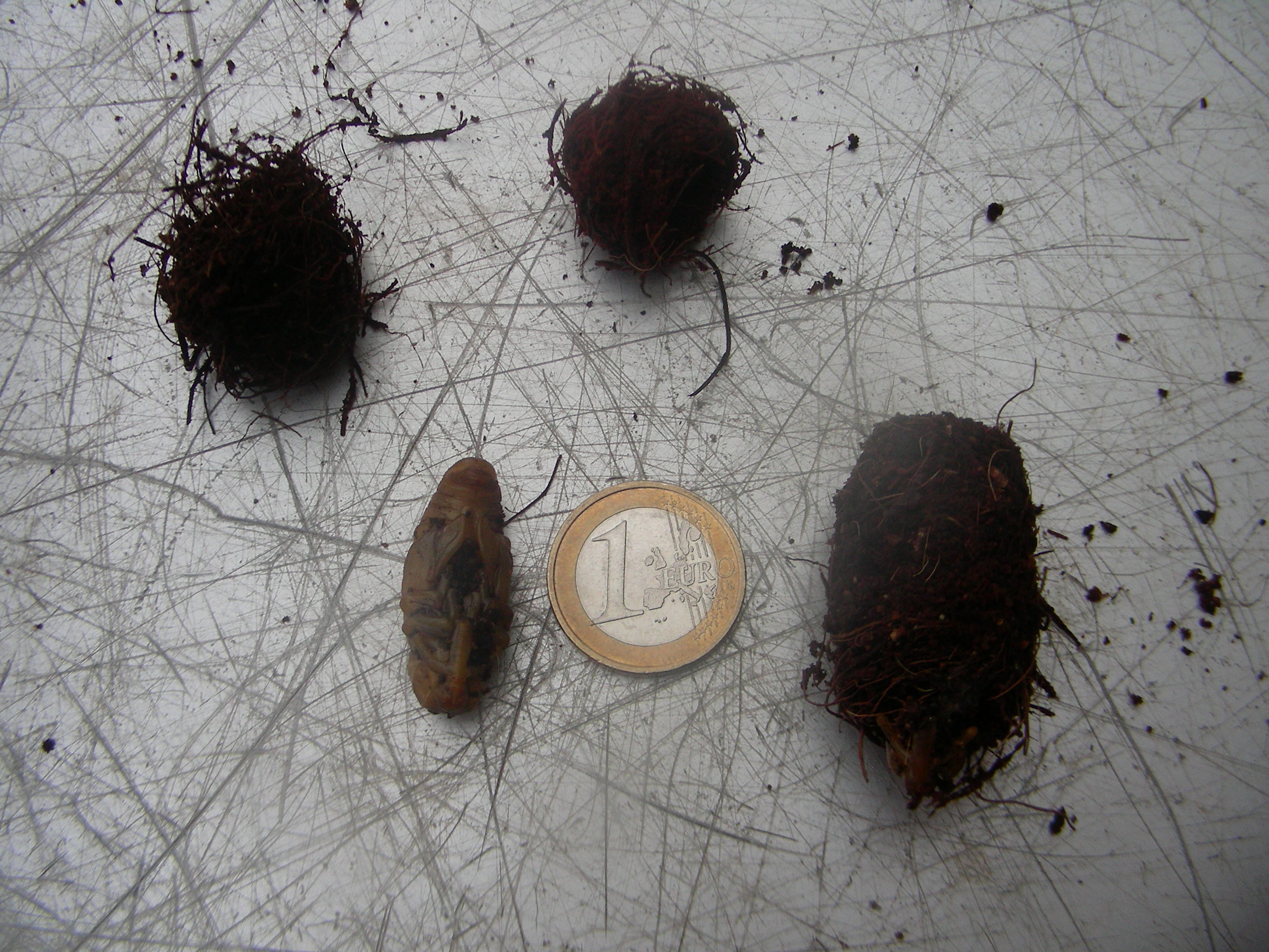 Rhynchophorus ferrugineus pupa and cocoon